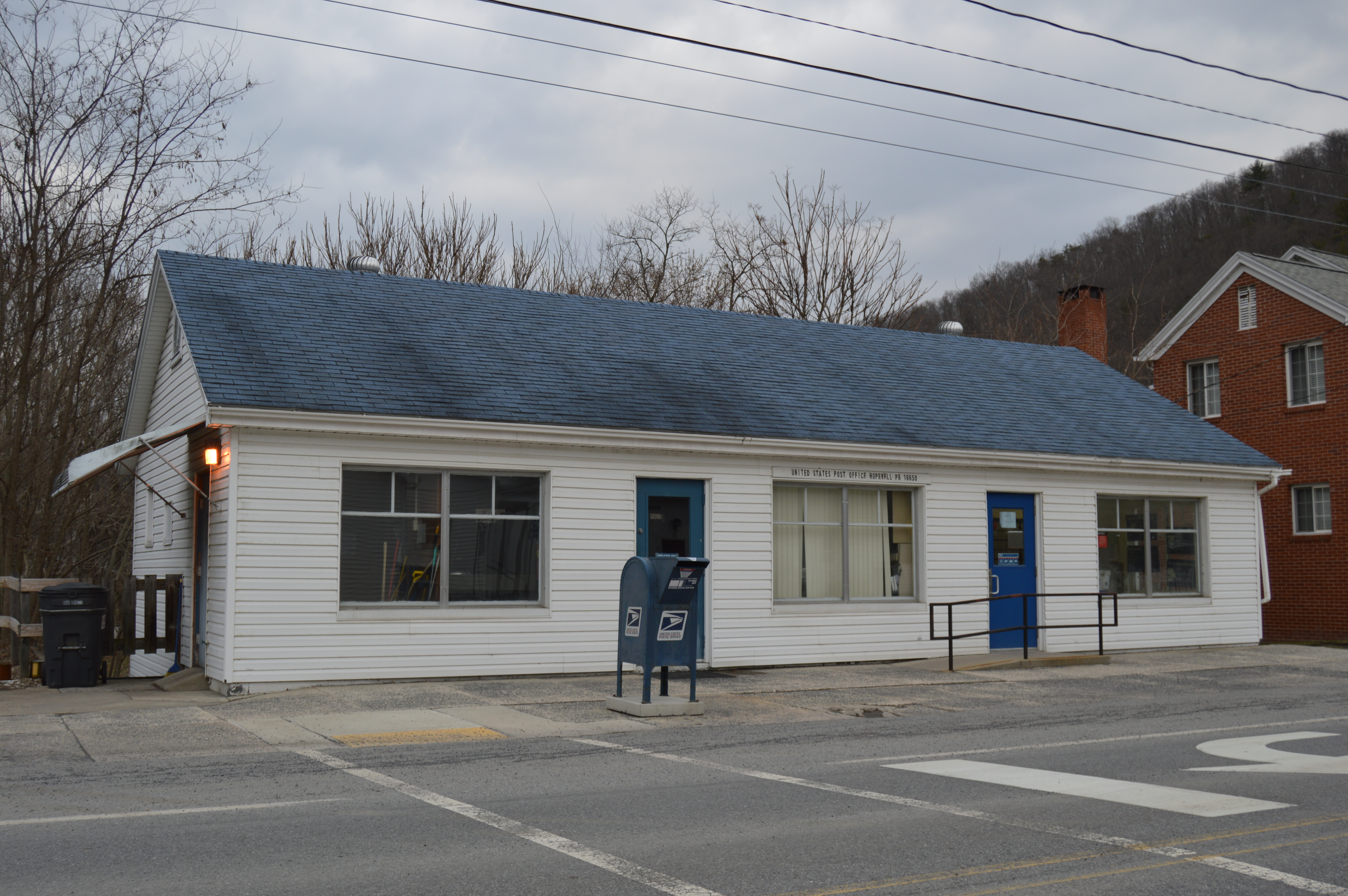 Front of the post office located at 211 Front Street (Pennsylvania Route 915) in Hopewell, Pennsylvania, United States.